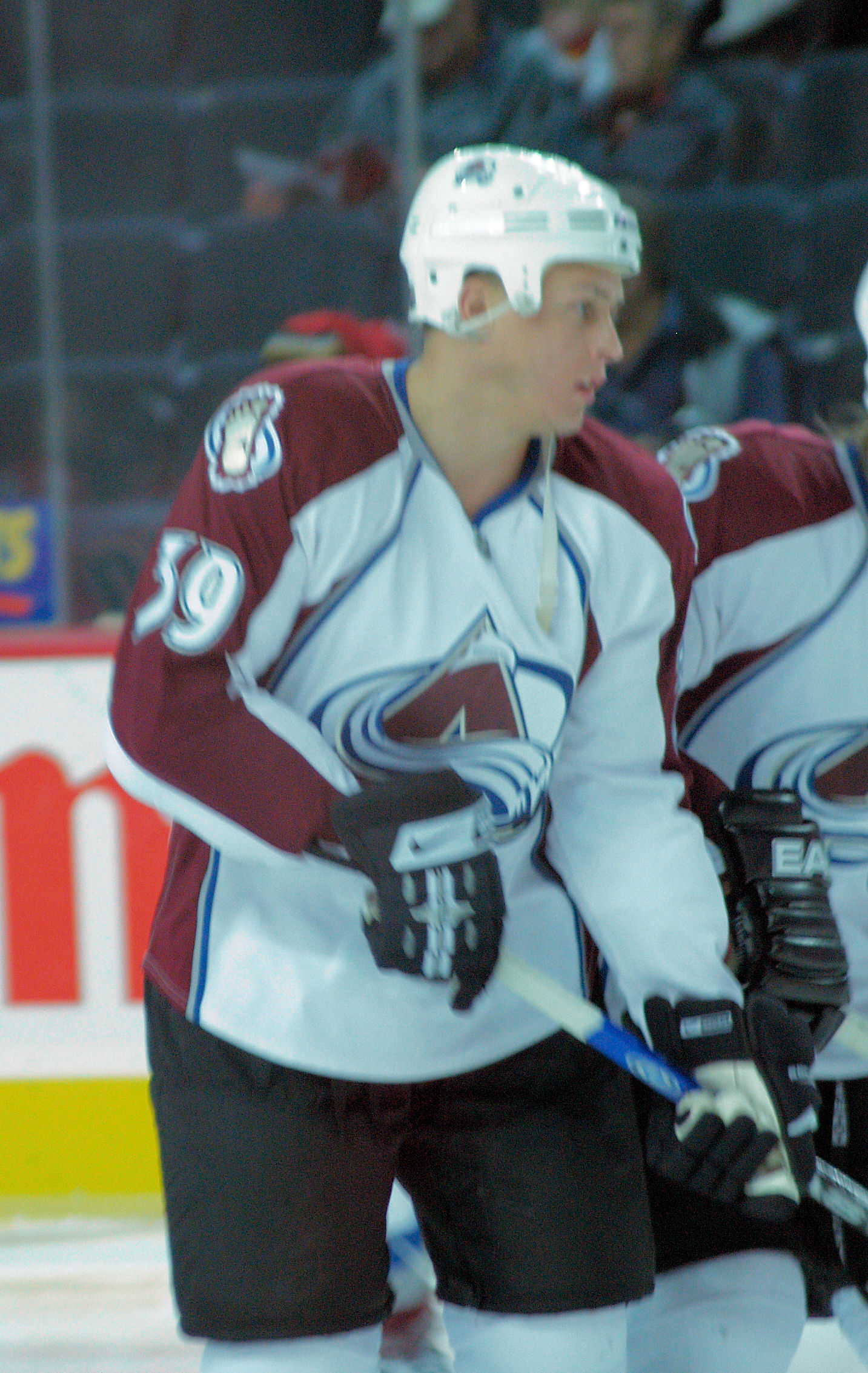 Tyler Arnason warming up before a game in Calgary, Alberta